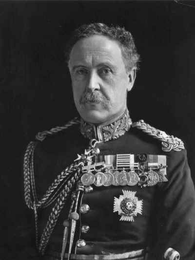 General Sir Neville Lyttleton